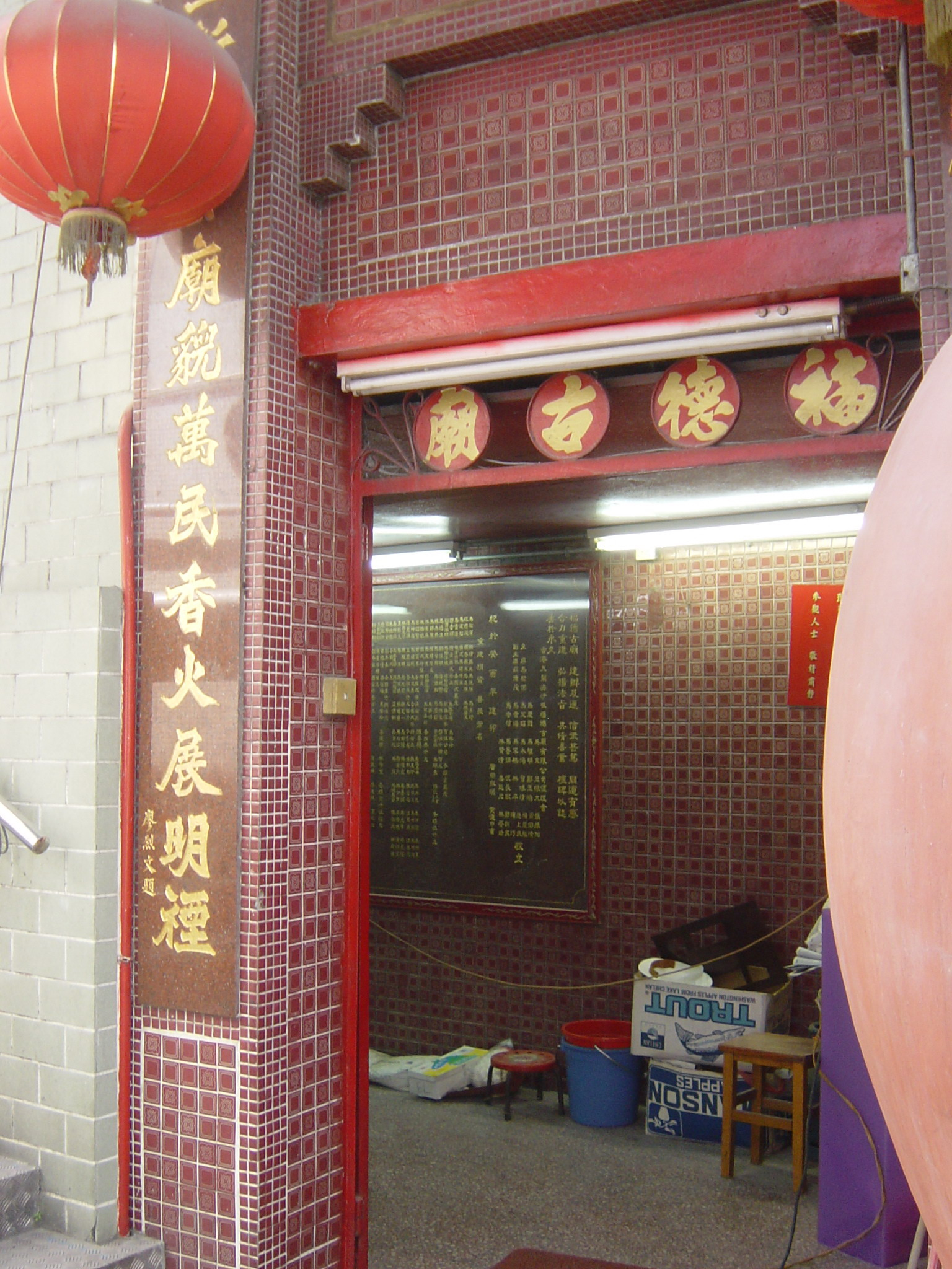 香港尖沙咀福德古廟。A temple of Tu Di Gong in Hong Kong.